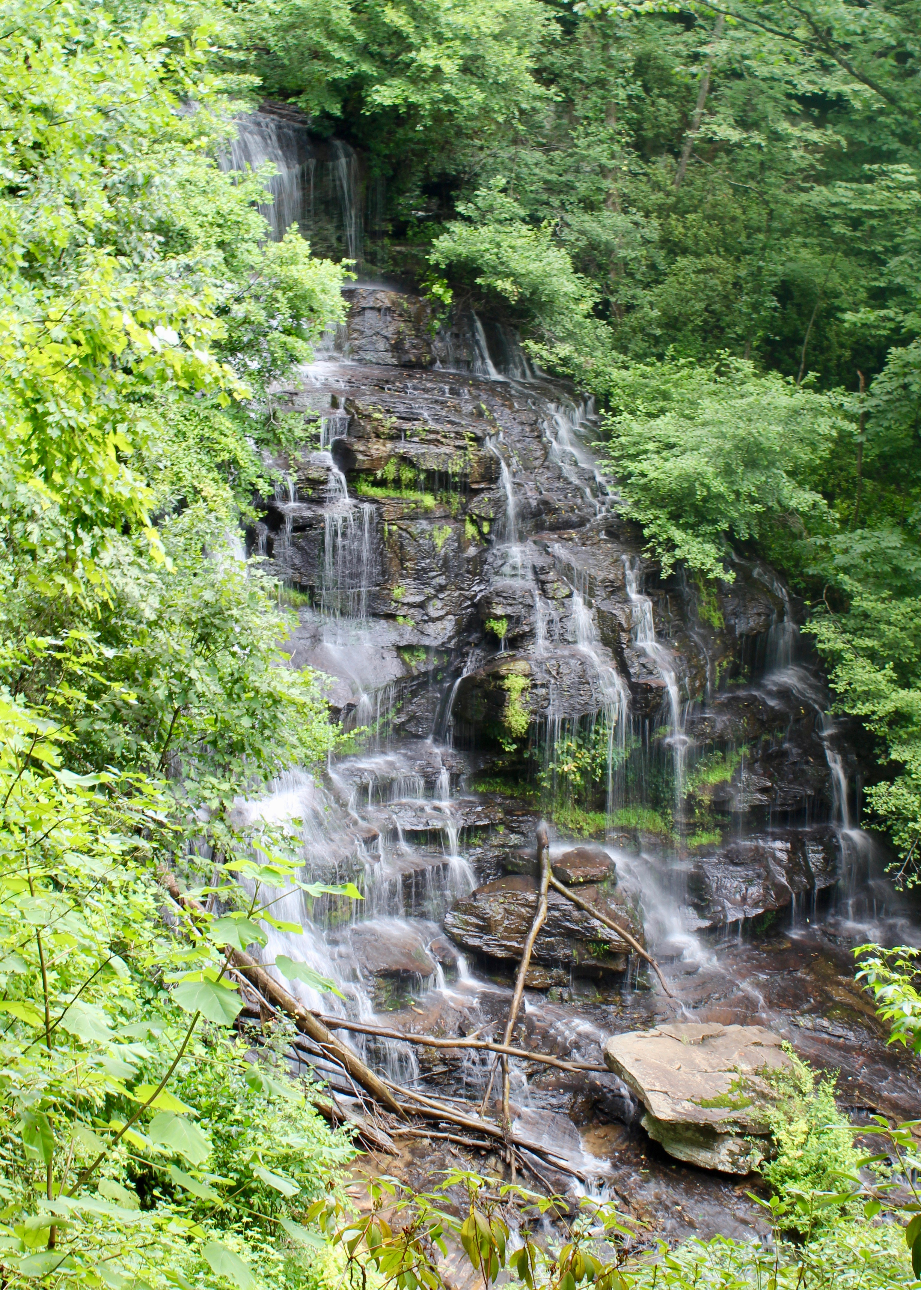 Waterfall in Oconee County, South Carolina.